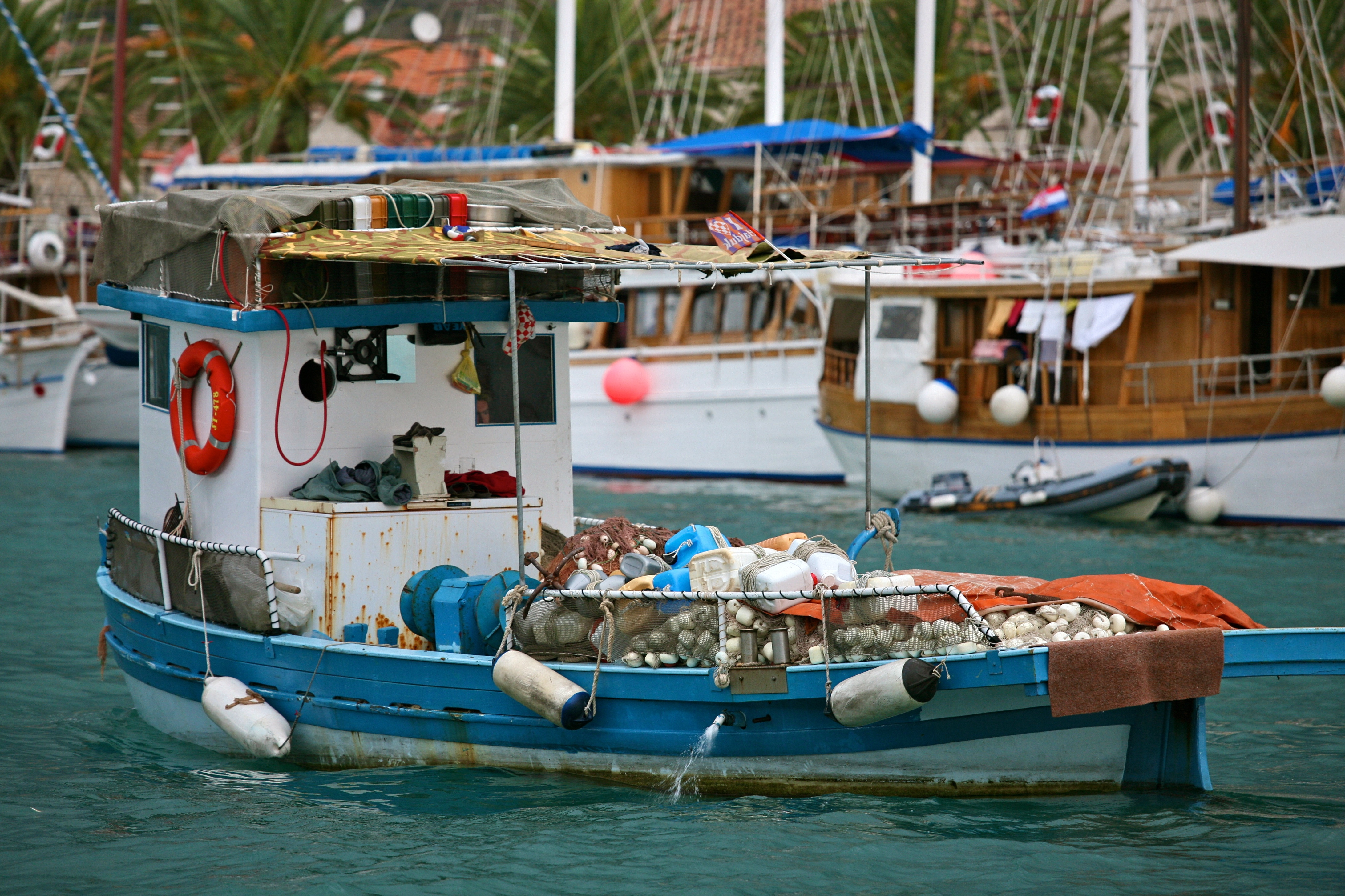 The Fishing Boat